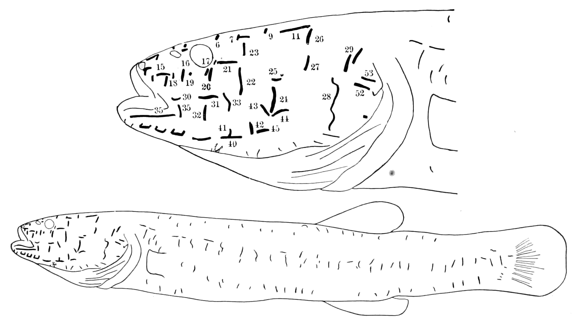 Lateral view of Chologaster papilliferus (=Forbesichthys agassizii) showing location of tactile ridges